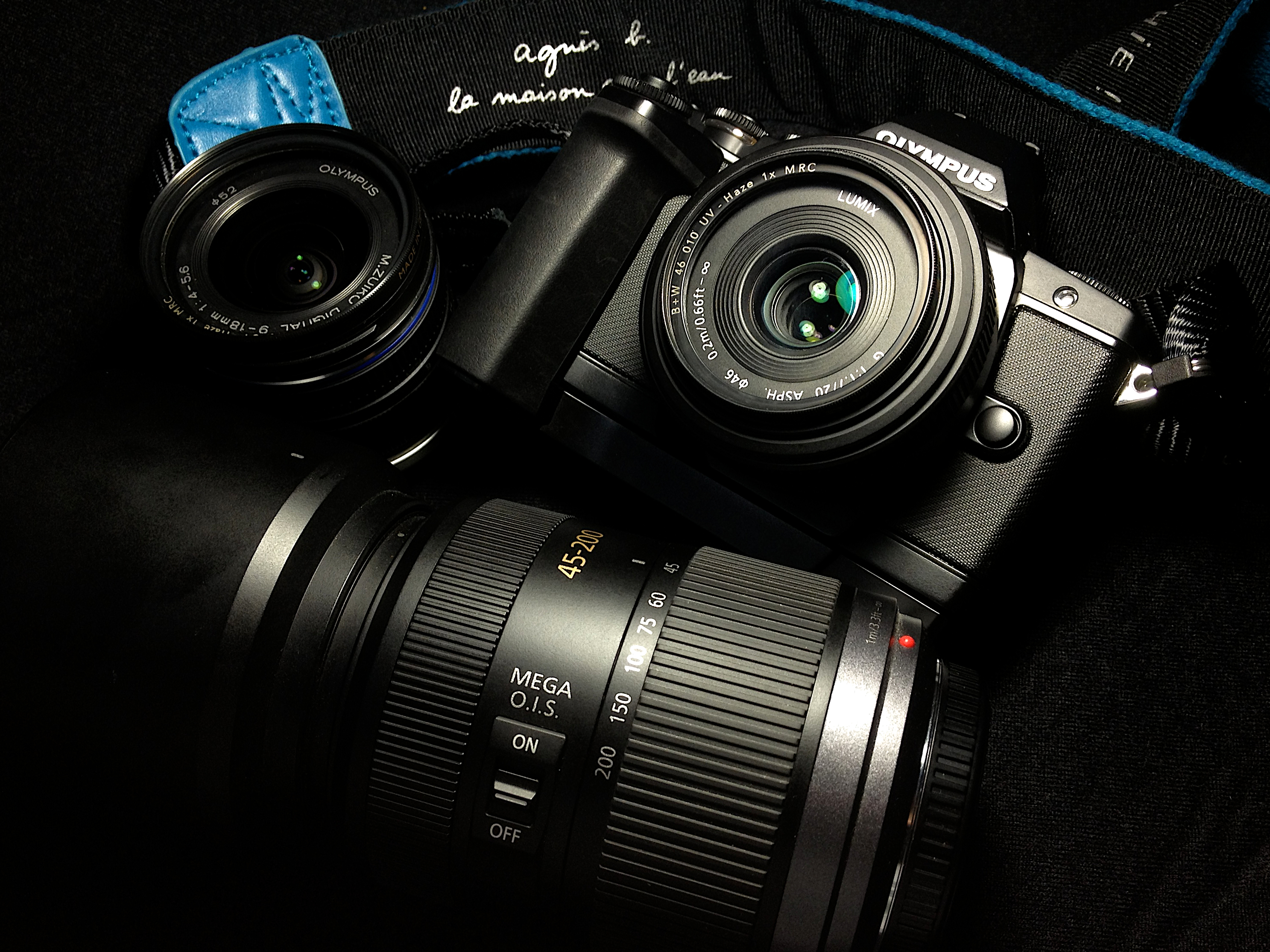 Olympus